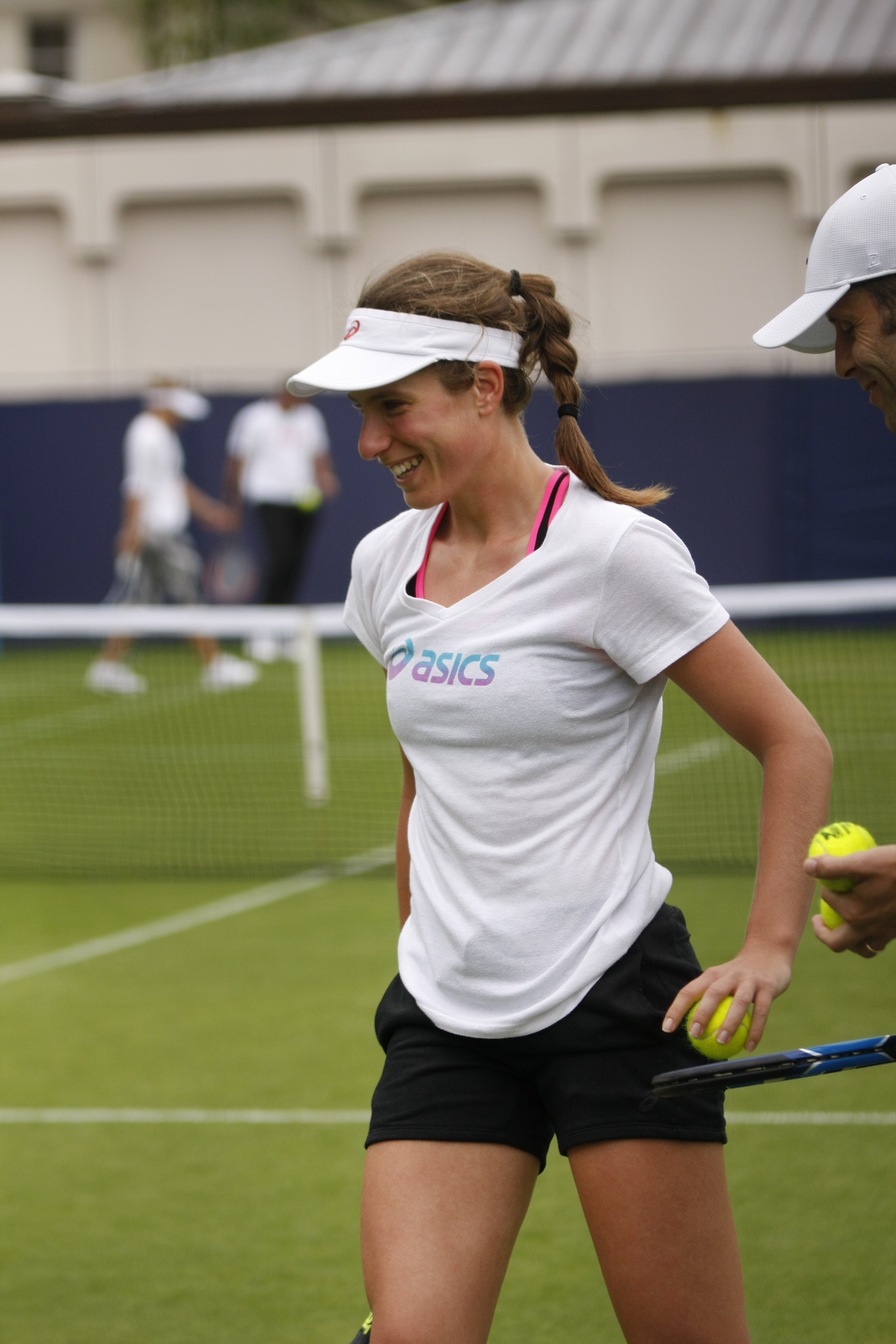 Aegon International Eastbourne 2016